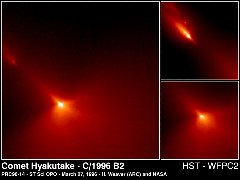 Hyakutake comet nucleus.